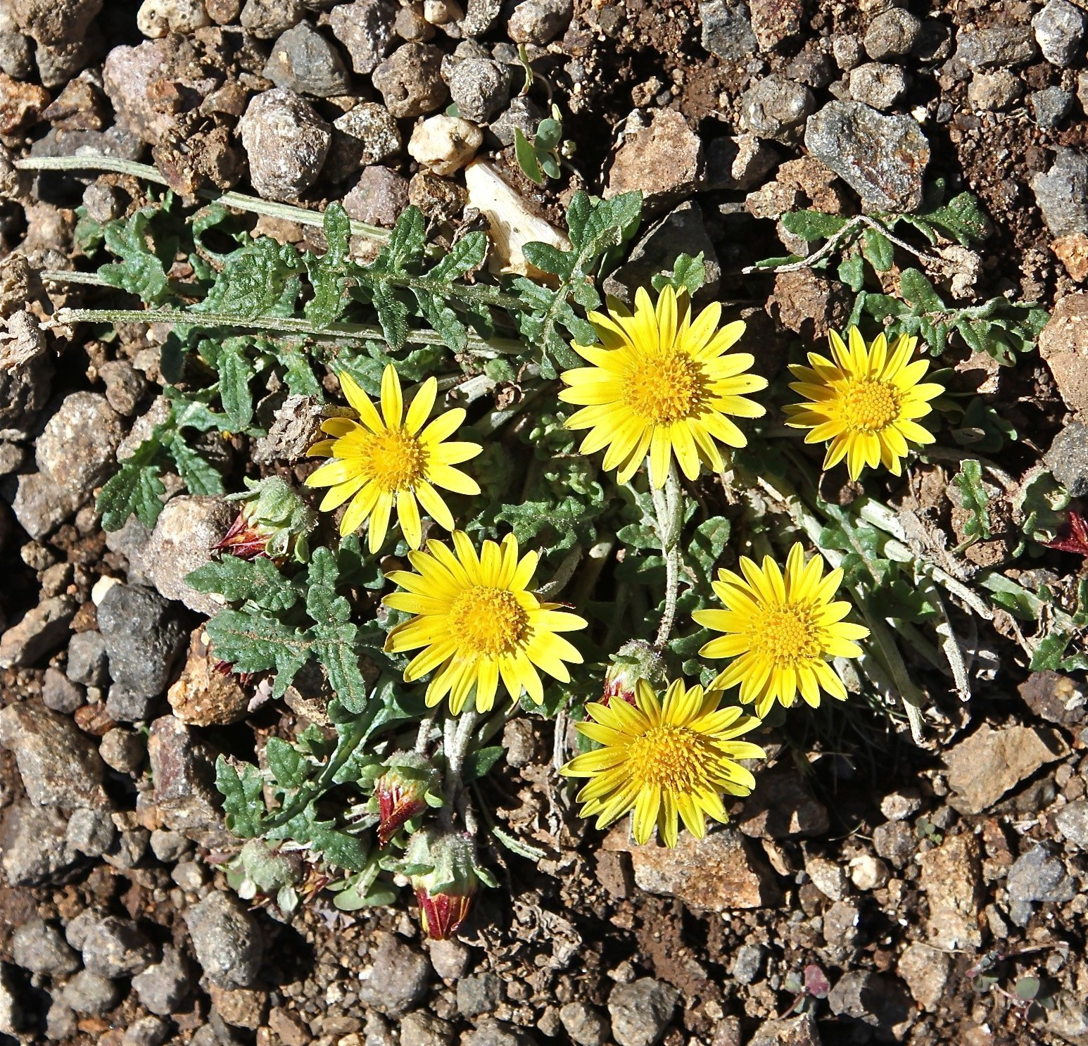 South Africa, Sani Pass, Drakenberg system